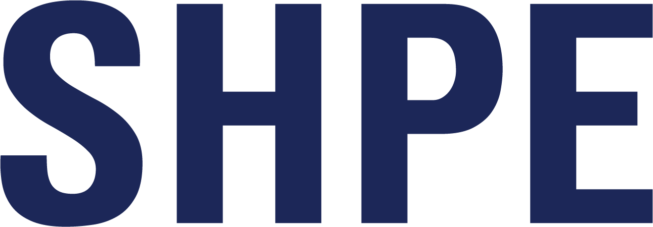 This is the new official SHPE logo using just the wordmark of the organization in dark blue.